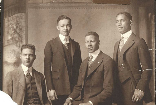 Photograph from the Yale Law School of black students (left to right): J. Alston Atkins, Charles A. Chandler, Mifflin Gibbs, and Leroy Pierce. Image courtesy of the Jasper Alston Atkins Papers, Yale University Manuscripts & Archives Digital Images Database, Yale University, New Haven, Connecticut. Retouched by MarmadukePercy.